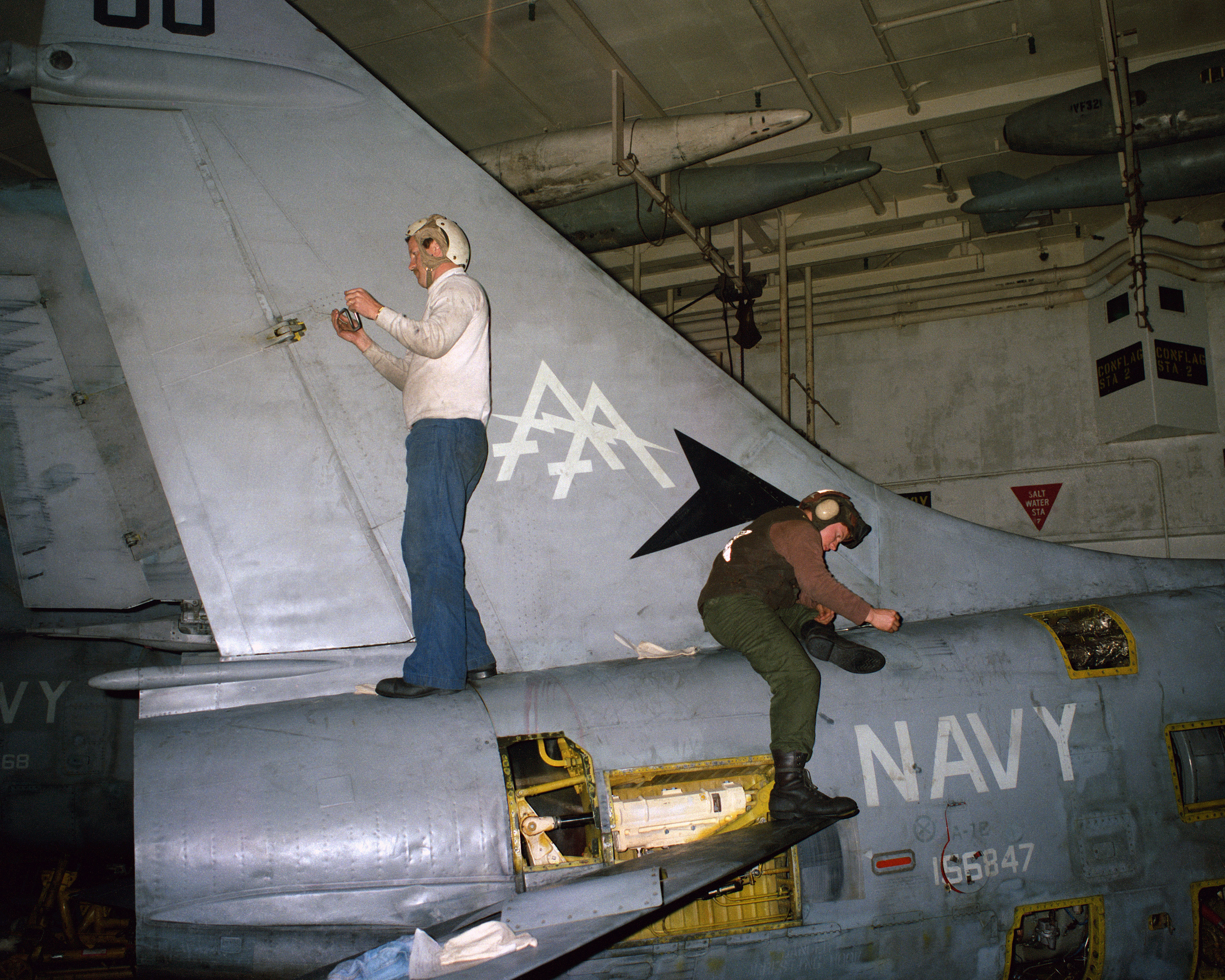 U.S. Navy crewmen service a Vought A-7E Corsair II aircraft (BuNo 156874) of attack squadron VA-81 Sunliners in the hangar bay aboard the aircraft carrier USS Saratoga (CV-60), on 20 March 1986. The Saratoga was deployed with Carrier Air Wing 17 from 26 August 1985 to 16 April 1986 to the Mediterranean Sea. On 24 March 1986 CVW-17 aircraft attacked Libyan targets after having been fired upon.